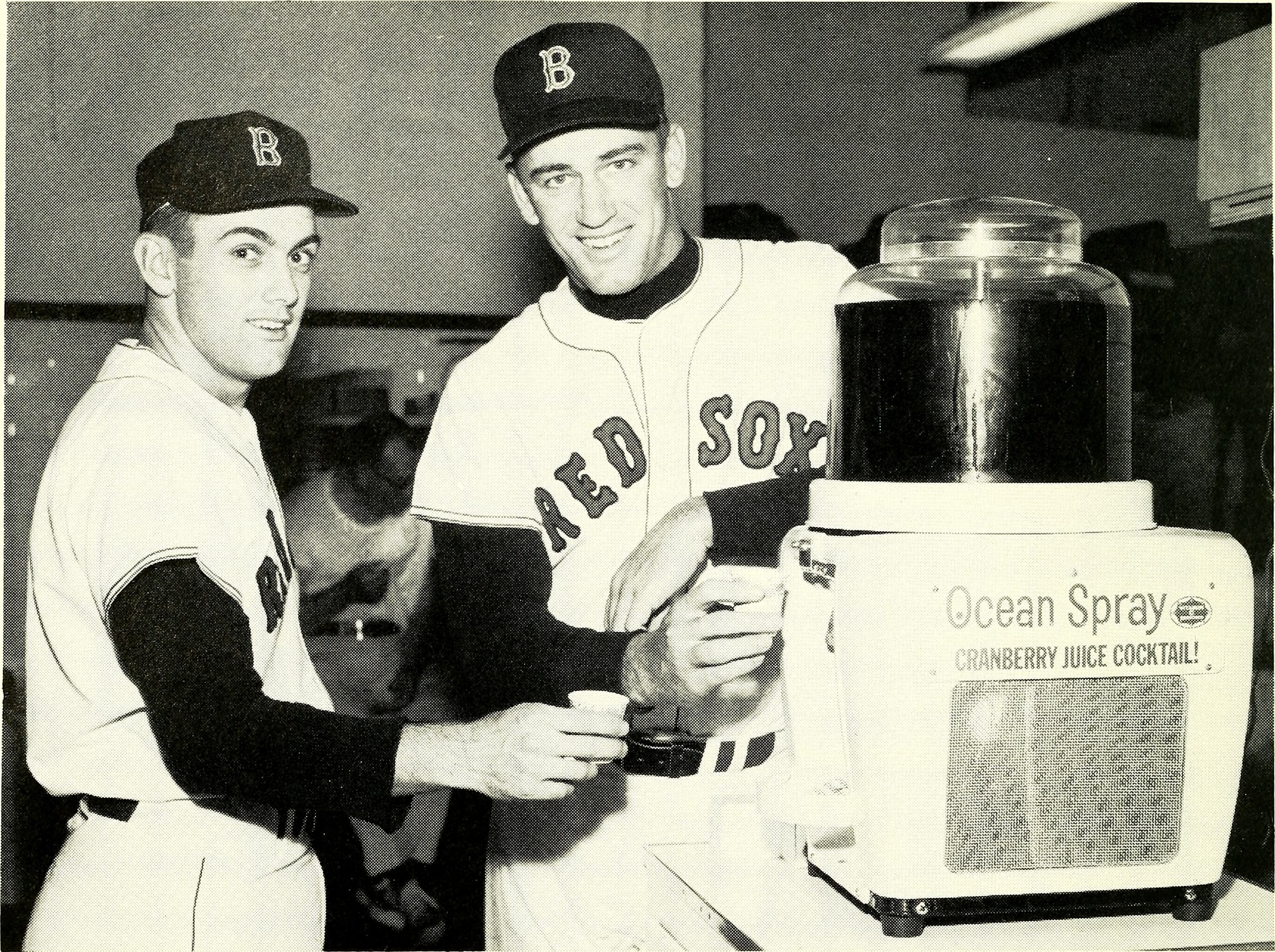 Boston Red Sox players Chuck Schilling (b.1937) & Bob Tillman (1937-2000) in a magazine advertisement for cranberries, taken in 1963. Tillman on the right, as he was taller than Schilling.